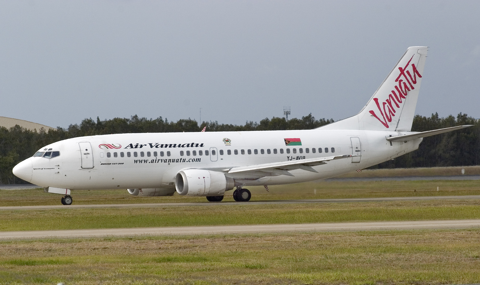 Air Vanuatu to Runway